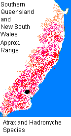 Sketch map indicating the approximate range of venomous funnel-web spiders found in Eastern Australia (New South Wales and Queensland) of the genera Hadronyche and Atrax. Produced on the basis of very general statements regarding the range and some knowledge of the climate and terrain. ( for the specifics regarding envenomation and the generalities regarding range.)